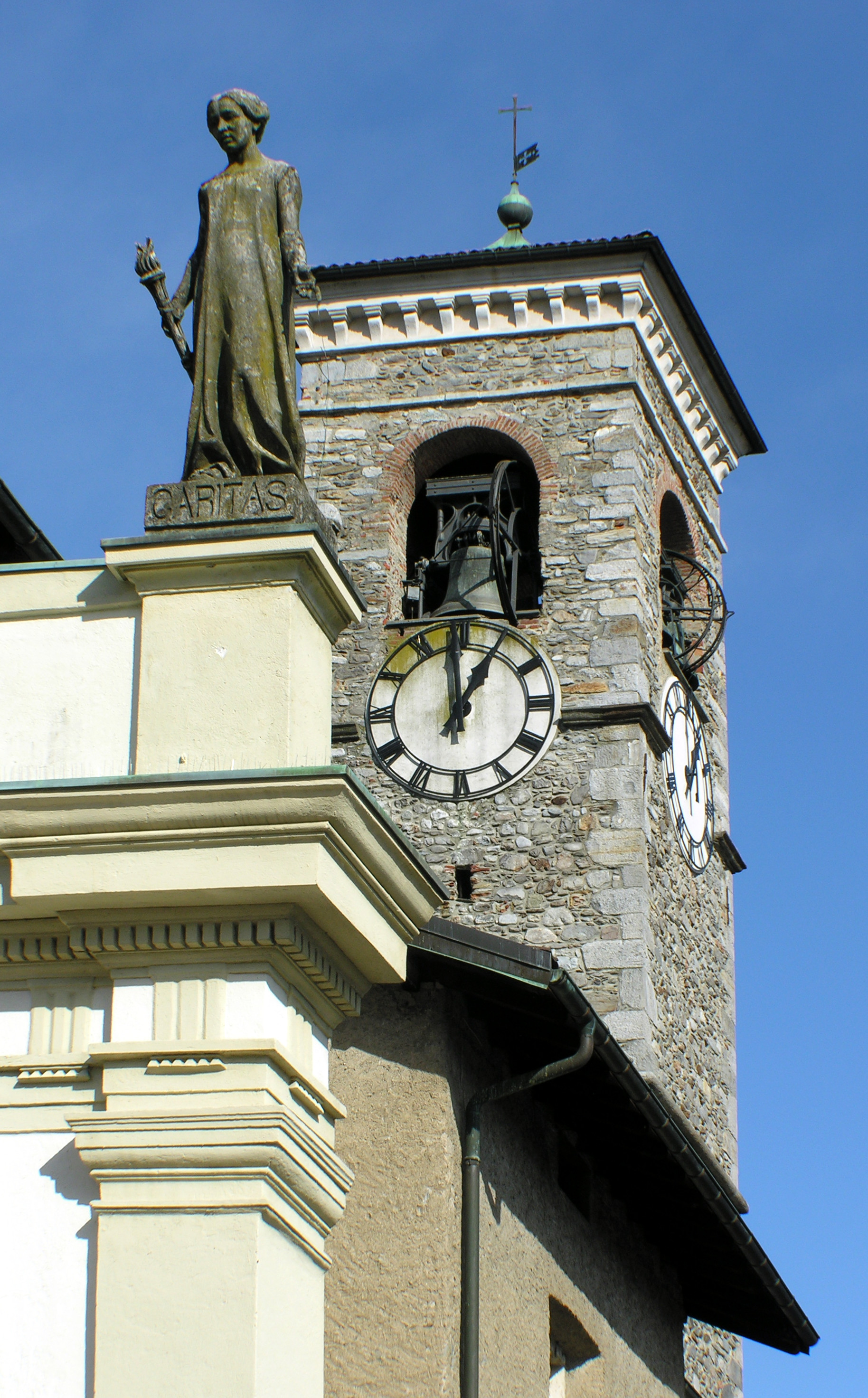 Caslano, Tessin, Switzerland - St. Cristoforo church, the clock tower